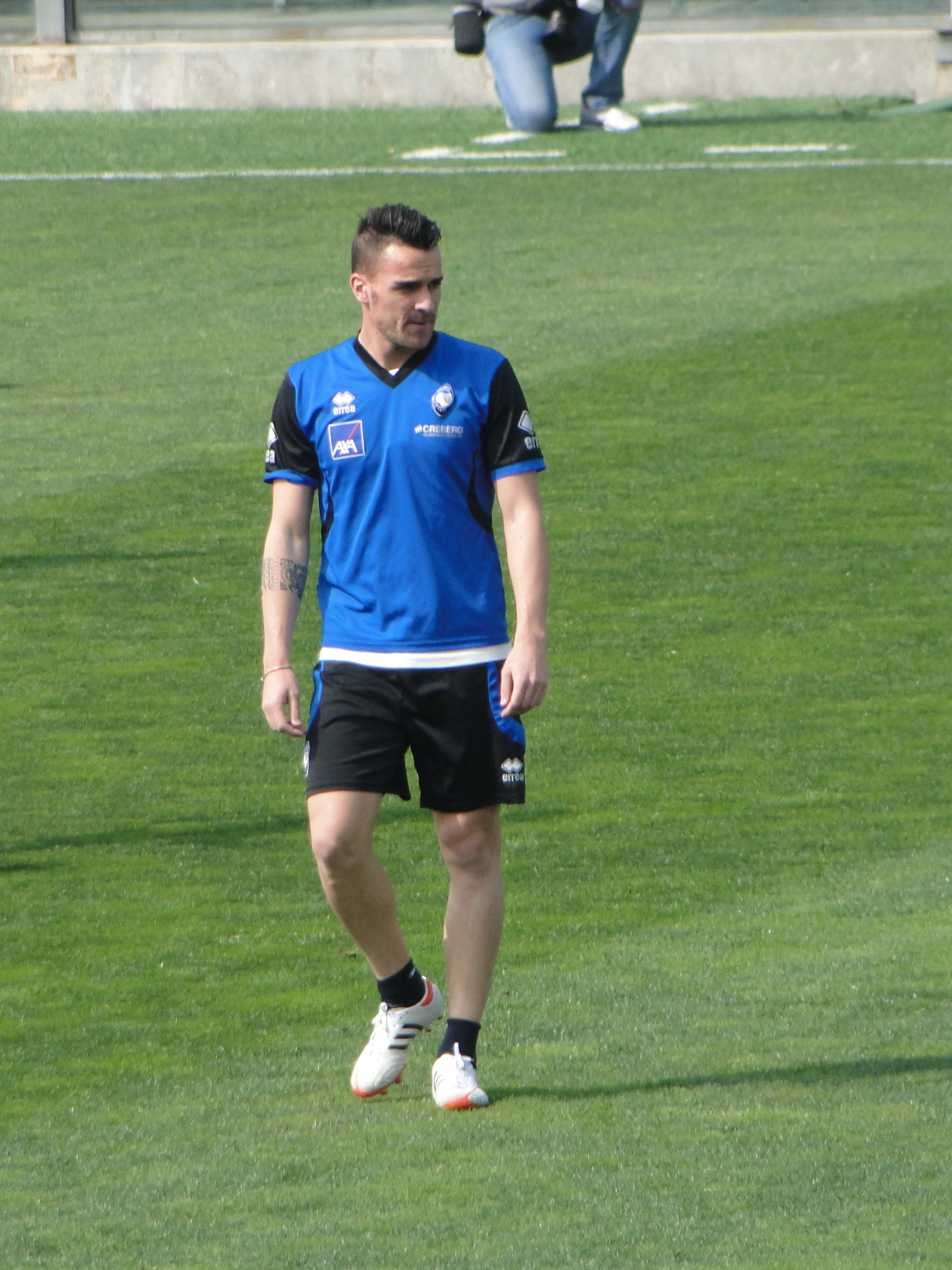 Luca Cigarini, italian football player